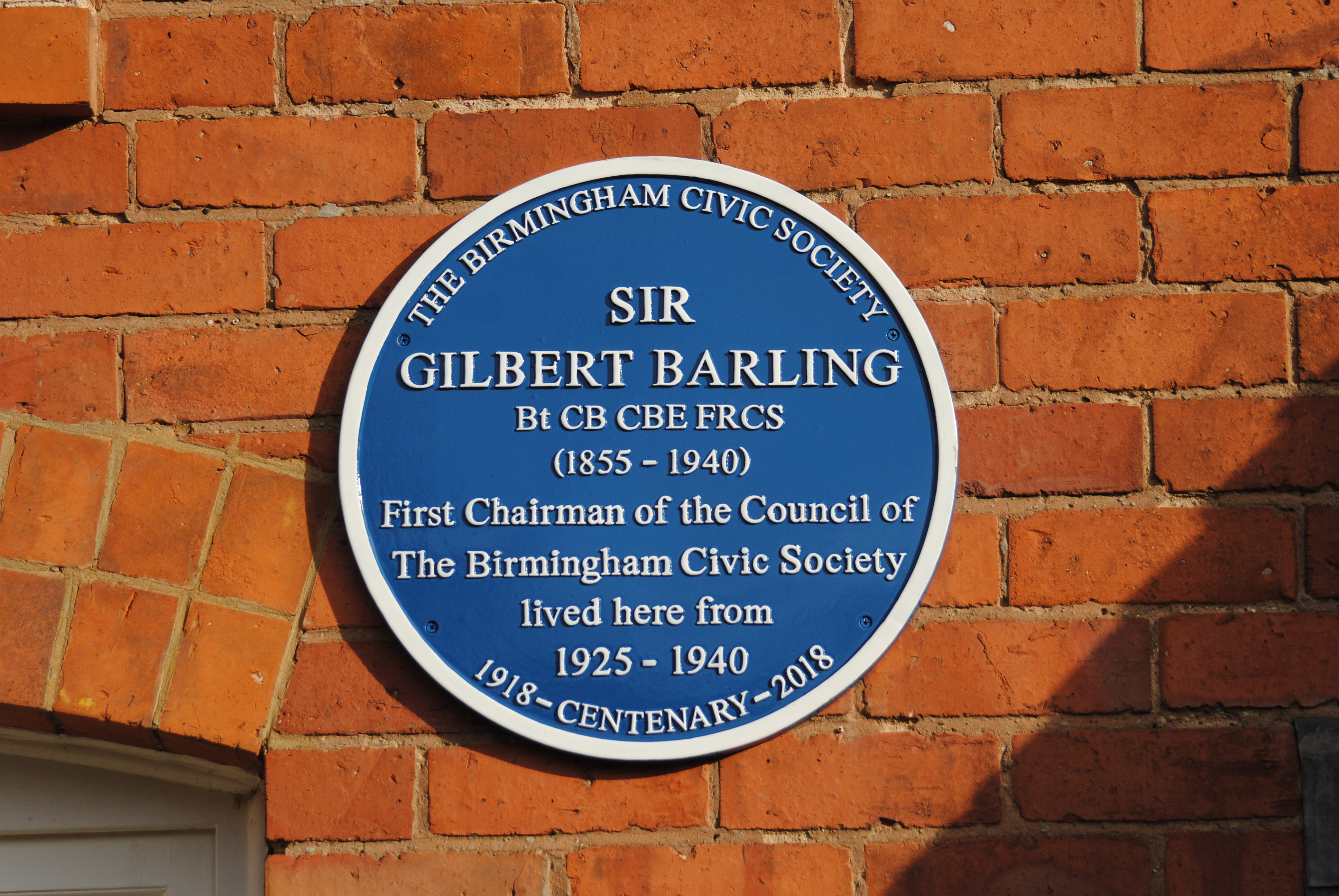 Birmingham Civic Society's Blue Plaque, honouring their founder chairman, Sir Gilbert Barling, on his former home at 6, Manor Road, Edgbaston, Birmingham, England.